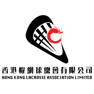 The official logo of the Hong Kong Lacrosse Association